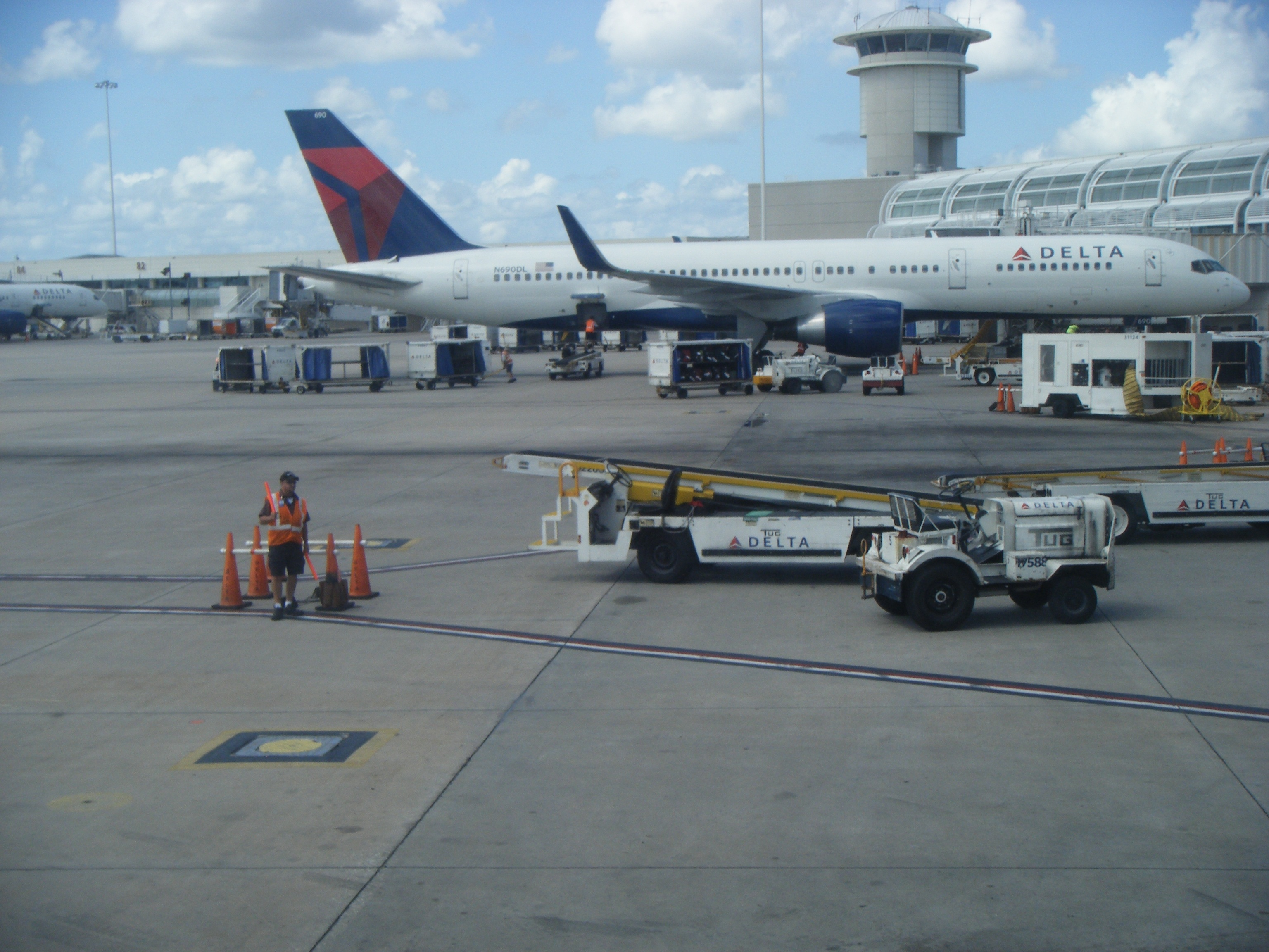 Delta Air Lines airplanes at Orlando International Airport in Orlando, Florida